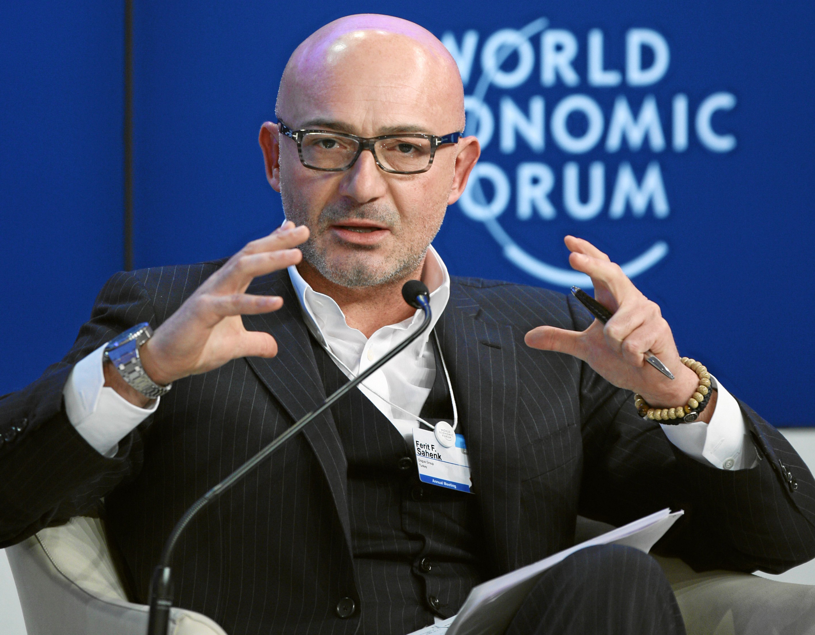 DAVOS/SWITZERLAND, 25JAN12 - Ferit F. Sahenk, Chairman, Dogus Group, Turkey speaks during the session 'The Global Business Context' at the Annual Meeting 2012 of the World Economic Forum at the congress centre in Davos, Switzerland, January 25, 2012. Copyright by World Economic Forum by Sebastian Derungs